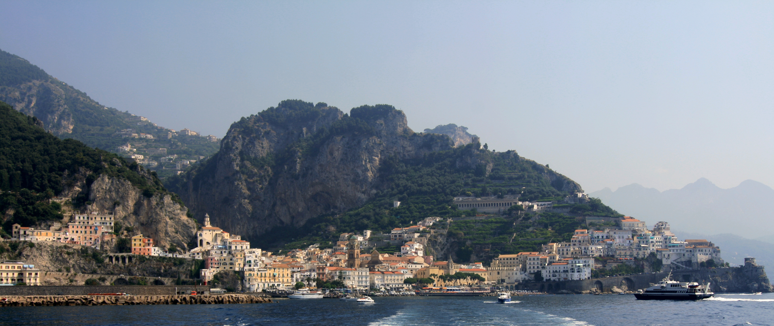 City of Amalfi, Italy